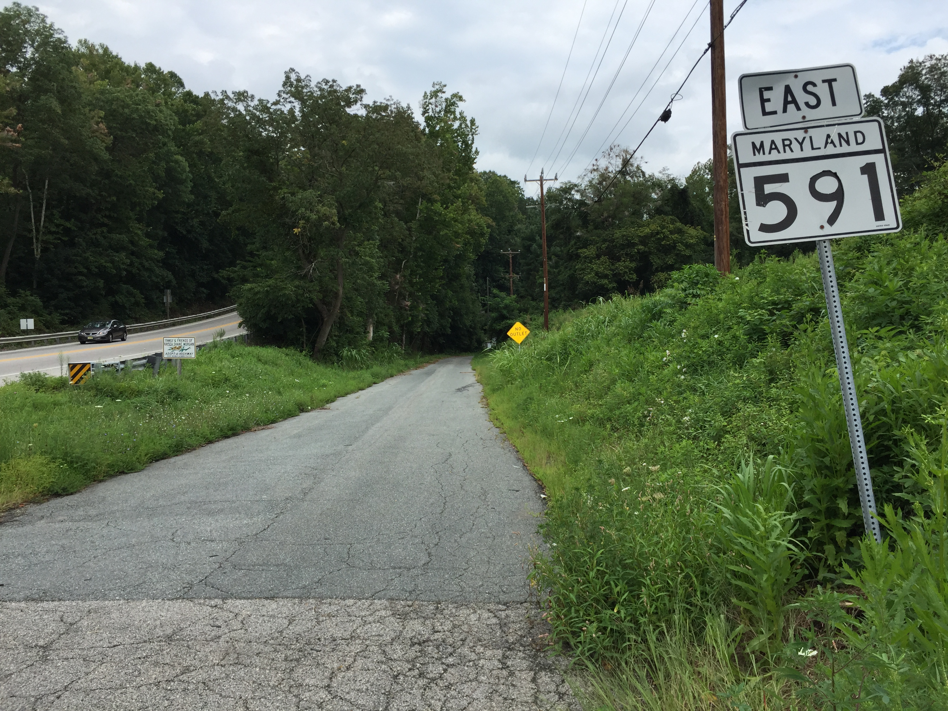 View east along Maryland State Route 591 (Colora Road) at U.S. Route 1 (Conowingo Road) in Richardsmere, Cecil County, Maryland